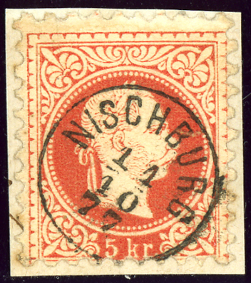 Austrian KK 5 kreuzer stamp, cancelled in NISCHBURG in 1877, Bohemia - Klein fingerhut type 456